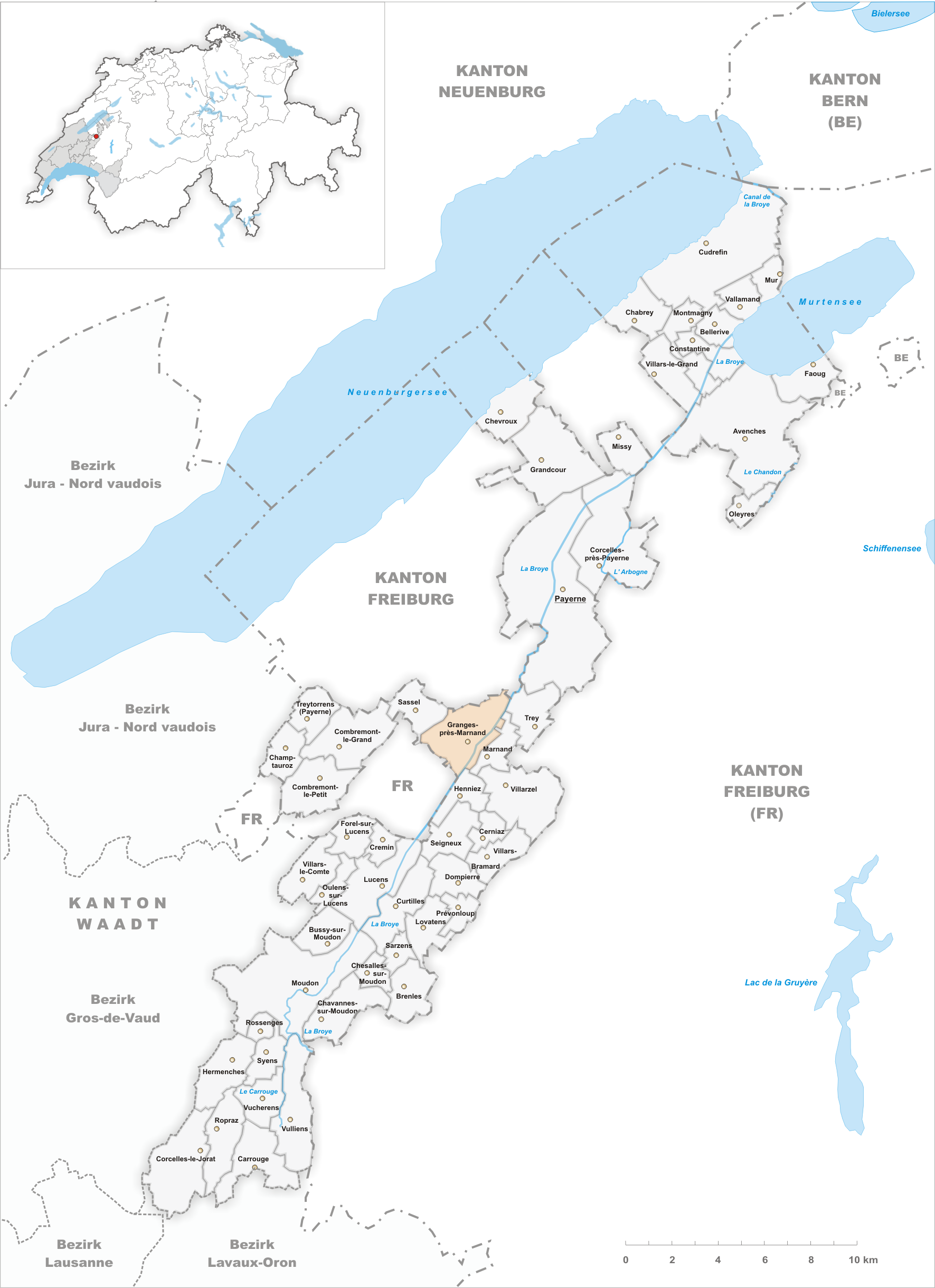 Municipality Granges-près-Marnand